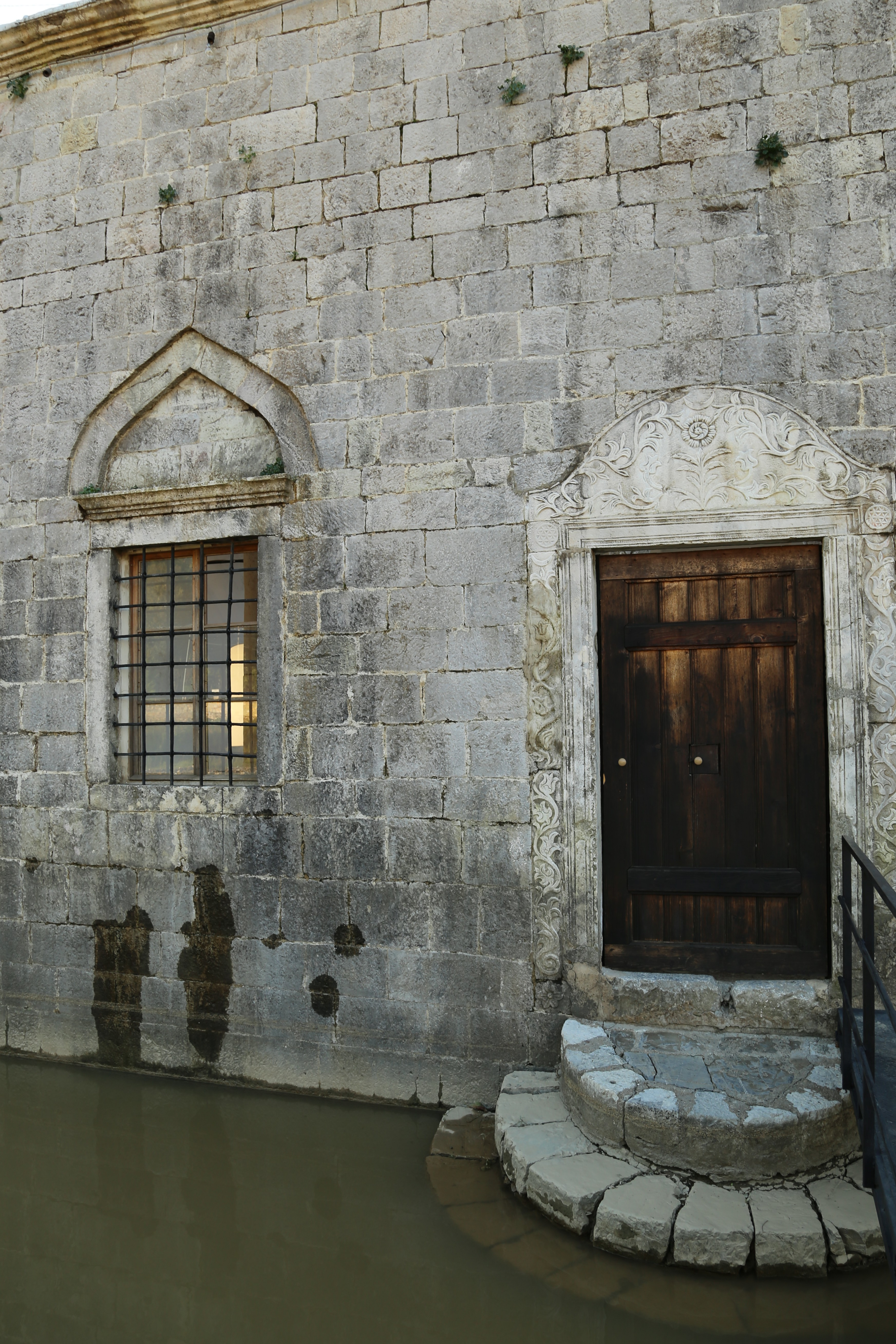 Lead Mosque, Shkodër